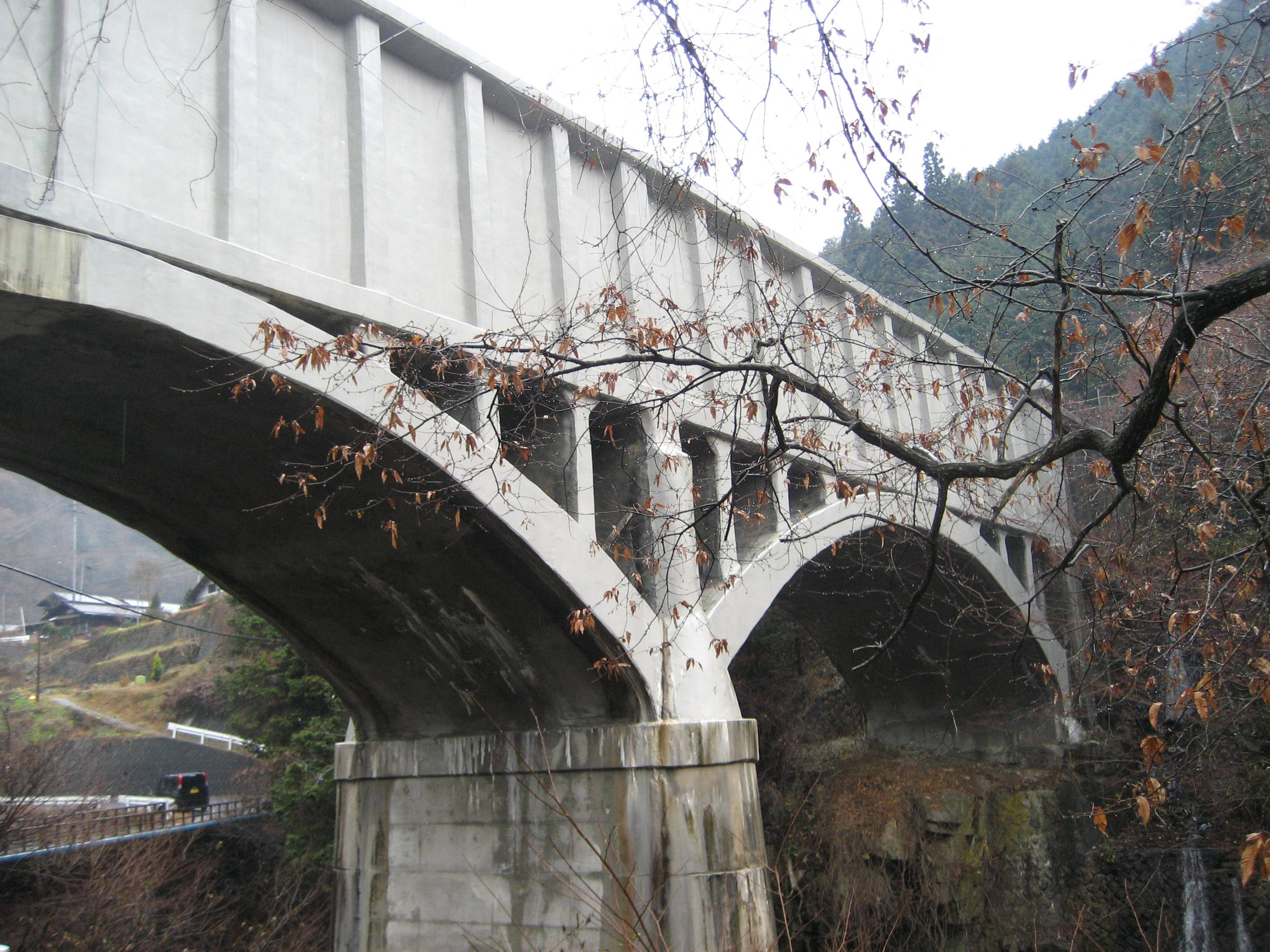 Kakizore aqueduct (柿其水路橋) in Nagiso village, Nagano prefecture, Japan. Kansai Electric Power Company manages it, a part of Yomikaki power station (読書発電所).